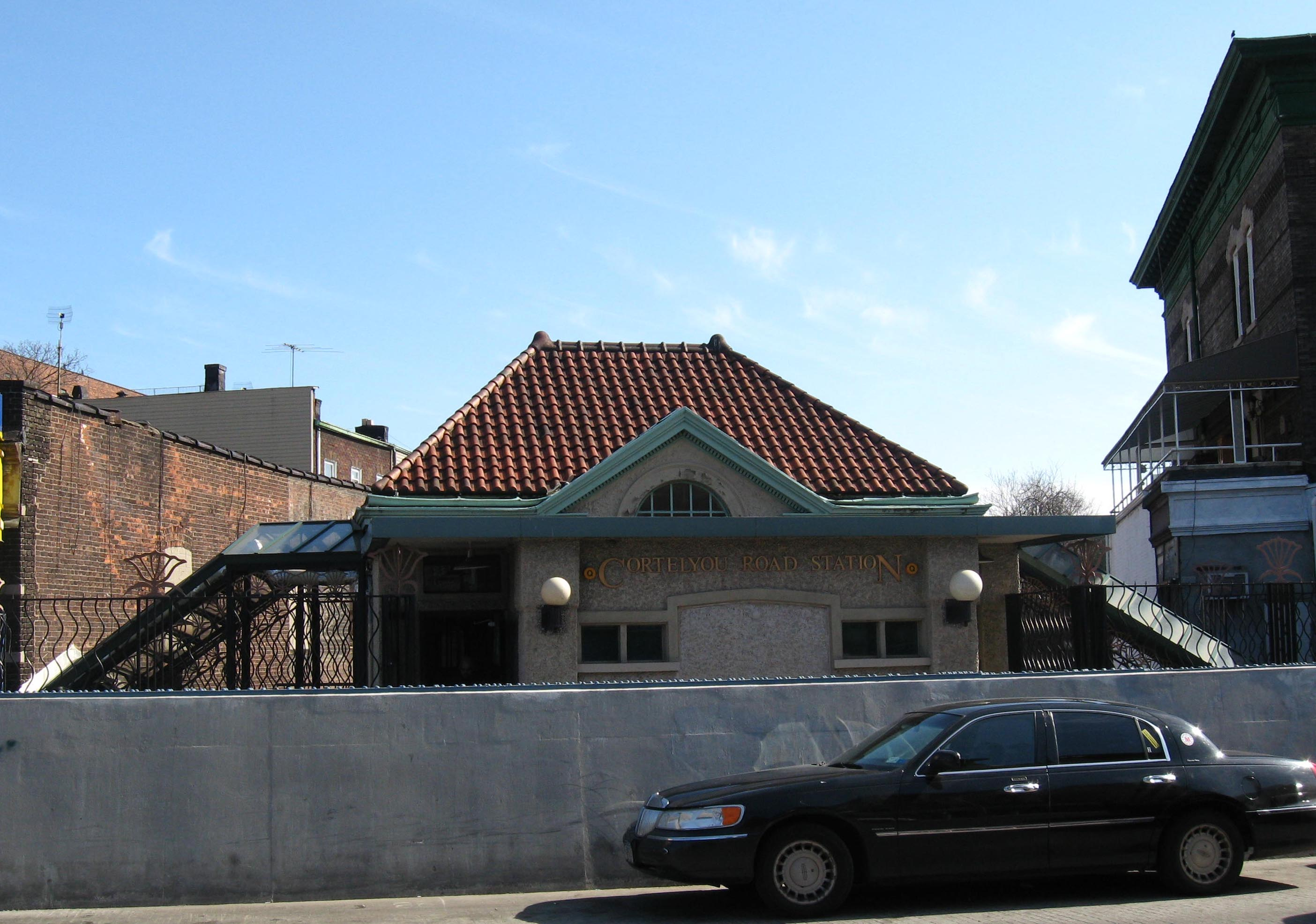 Station House of Cortelyou Road. I took this picture looking south across the road early in the afternoon of an early spring sunny day